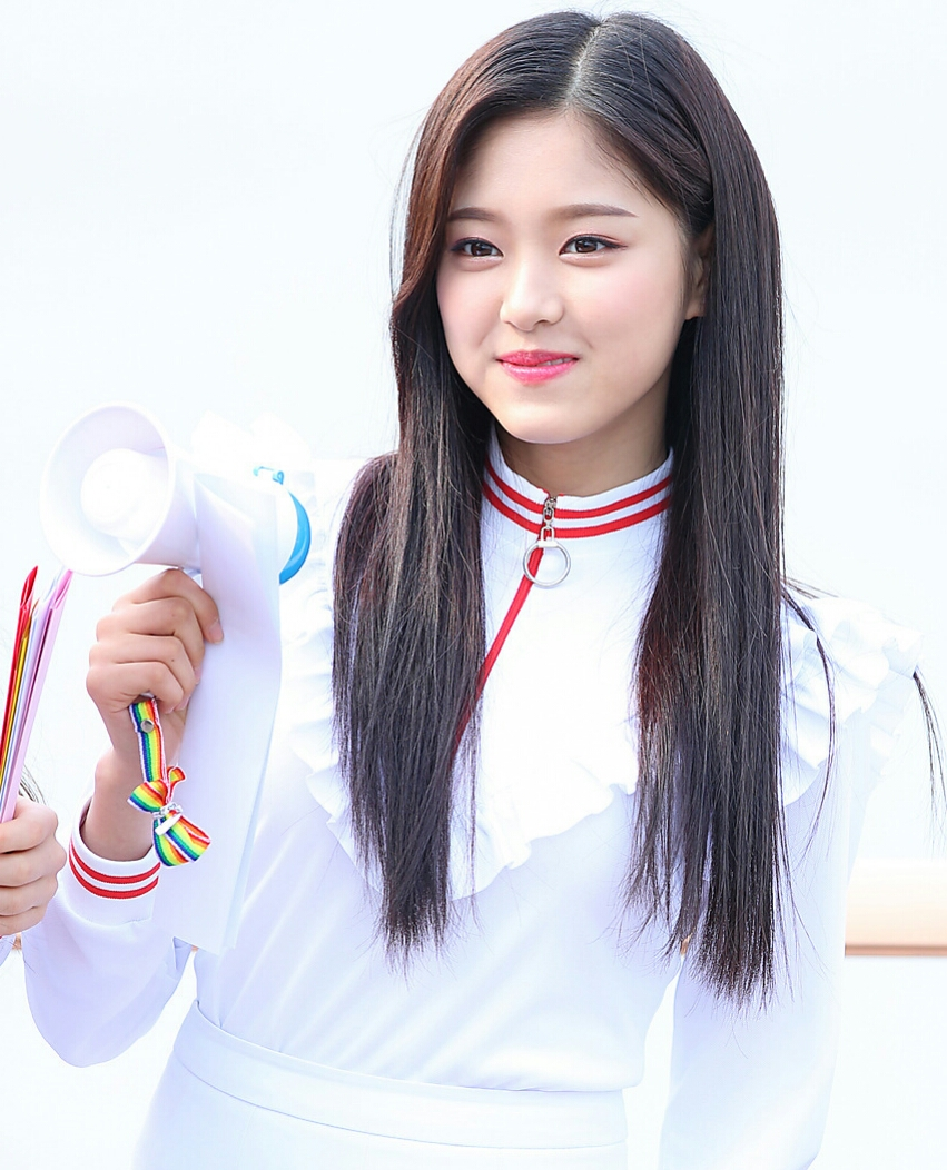 Hyunjin at Inkigayo Mini Fan Meeting on March 12, 2017.